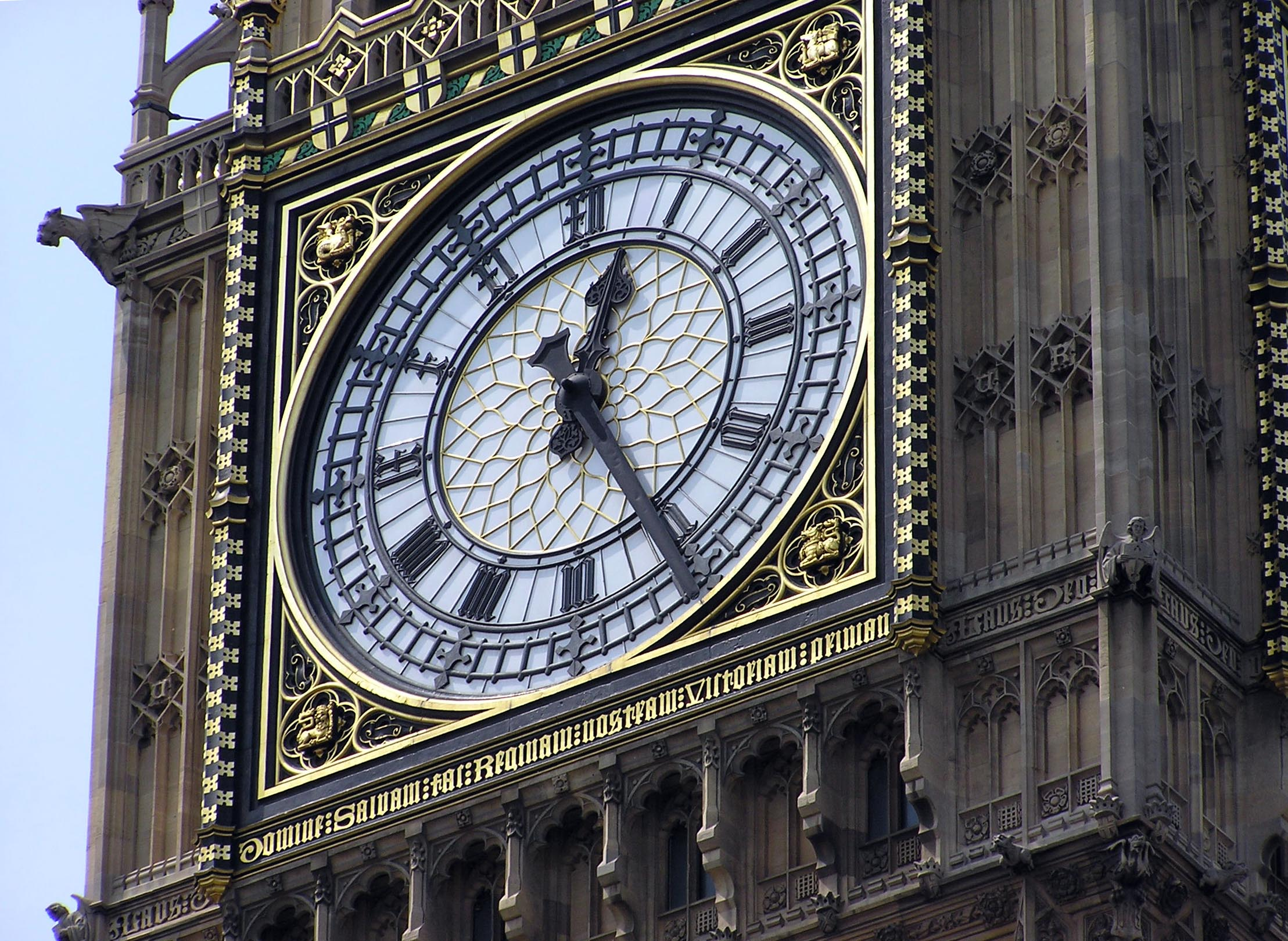 The clock, taken with a telephoto lens. Photographed by Adrian Pingstone in June 2005 and released to the public domain.